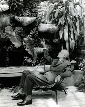 Photo of Pietro Porcinai, landscape architect